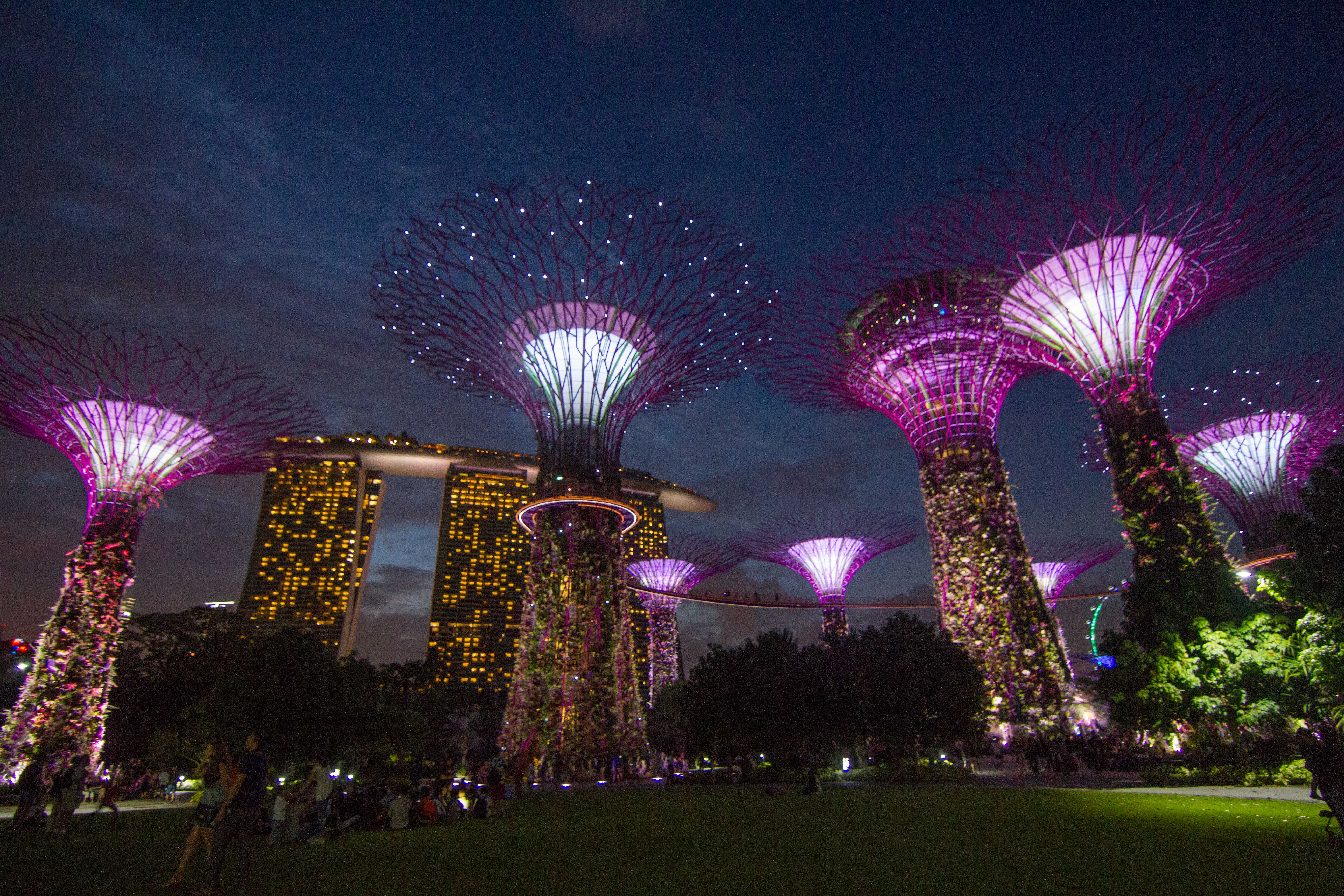 Supertree Grove, Gardens by the Bay, Singapore